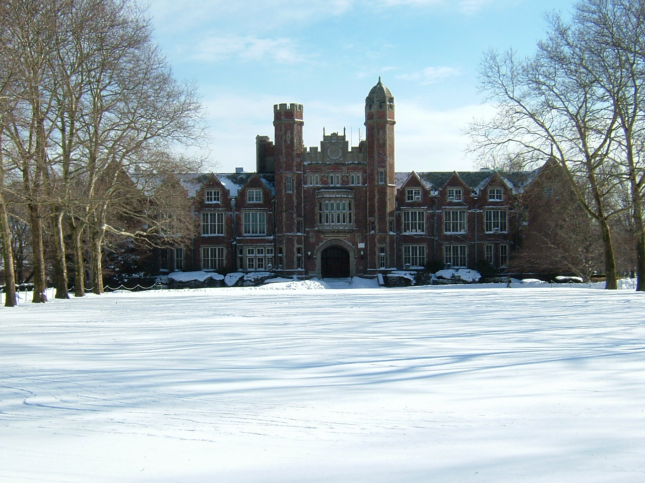 Main Hall at Wagner College, Staten Island, New York